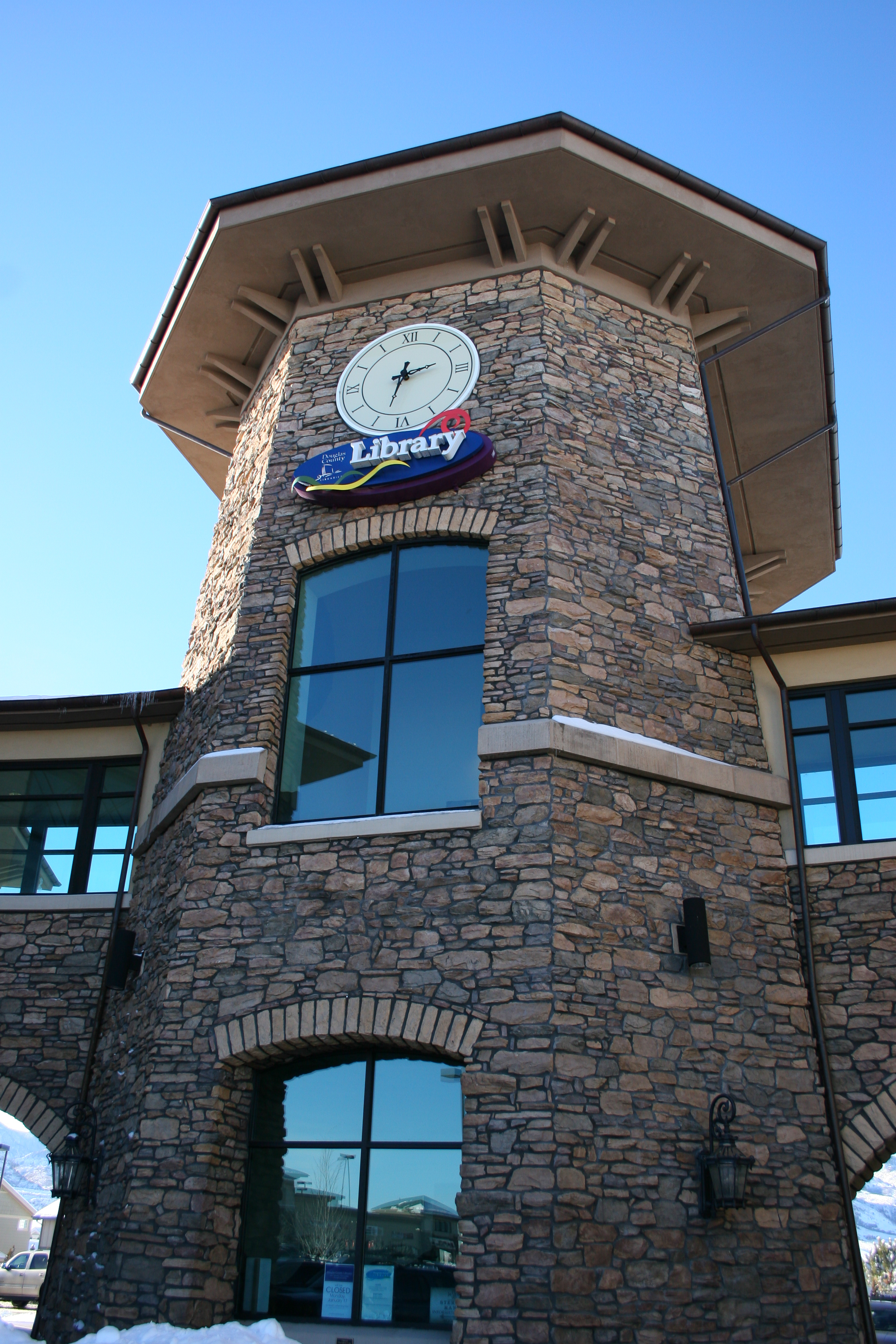 Douglas County Libraries, Roxborough Library - Littleton, Colorado